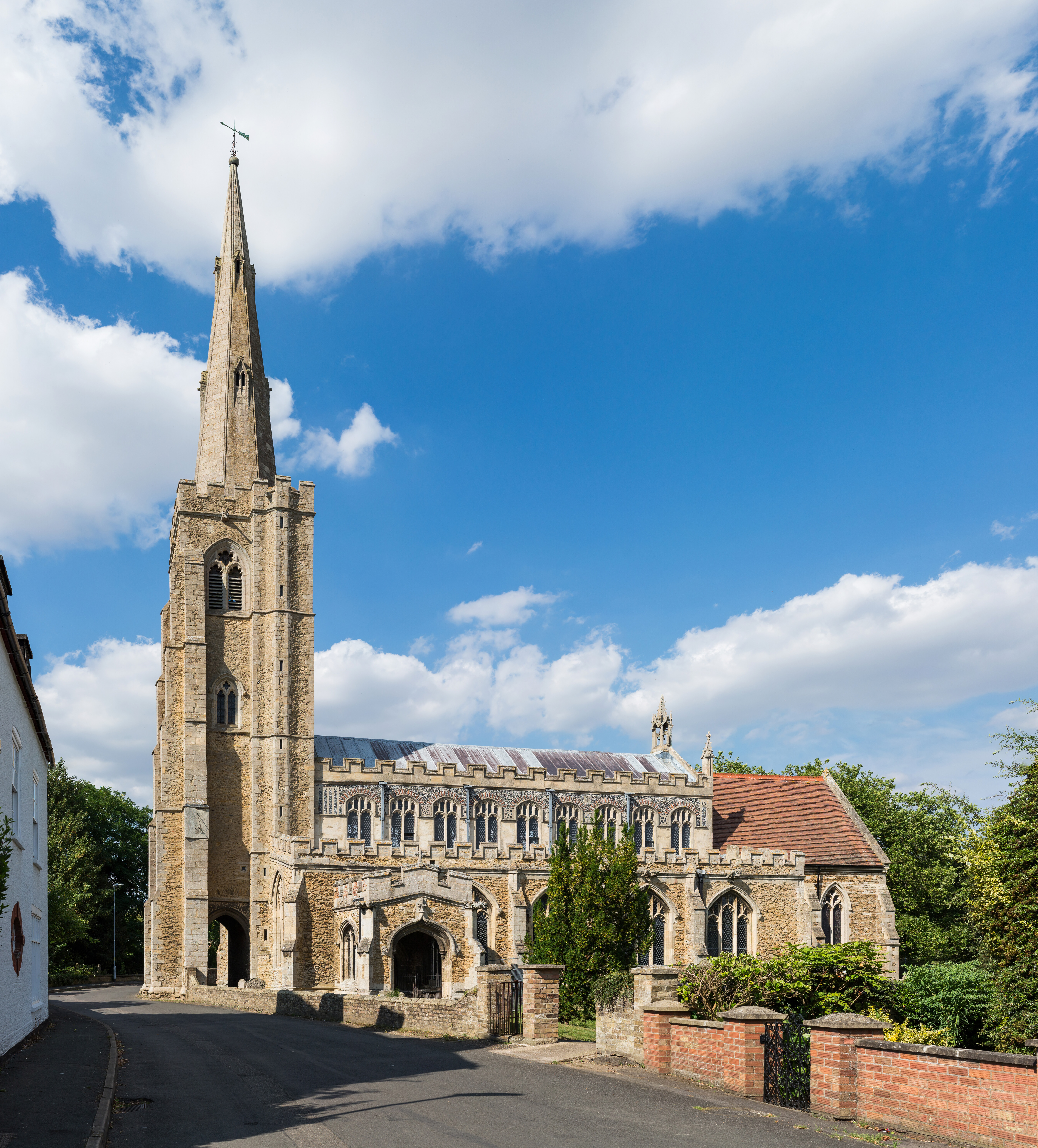 The exterior of St Wendreda's Church in March, Cambridgeshire, England, viewed from